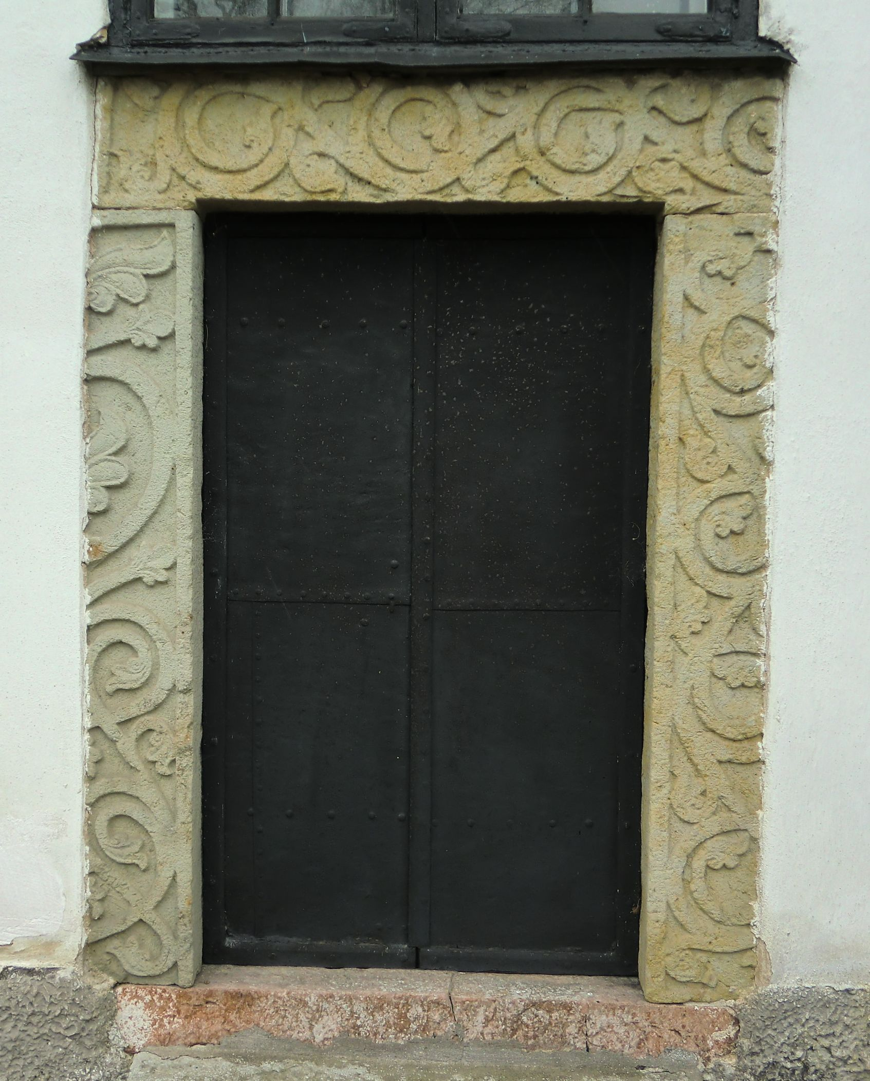 One and a half cut Tree-of-Life slab surrounds the nobility-door at Ek parish church, Mariestad, Sweden.